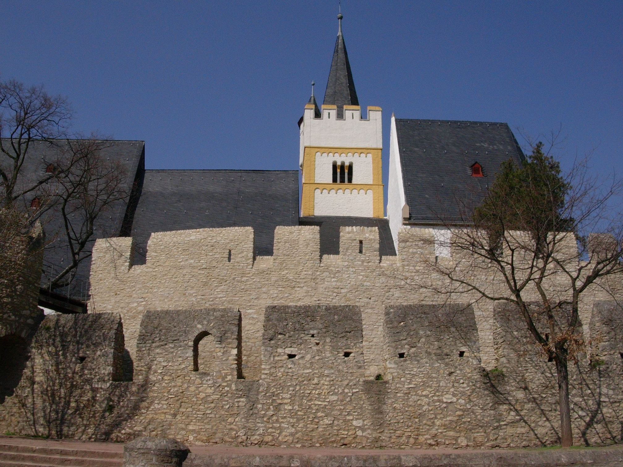 The castle church in Ingelheim, Rheineland-Palatinate, formerly called St. Wigbert, is a late Gothic art fortified church.